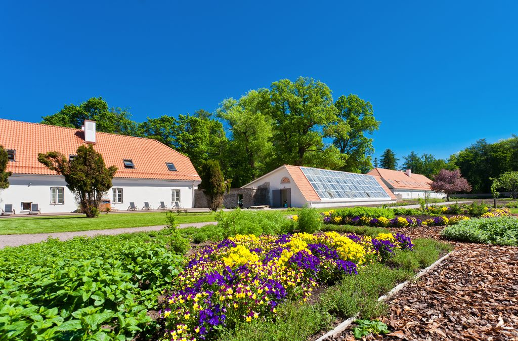 Vihula Manor Country Club & Spa is a hidden treasure on the Northern coast of Estonia, set amidst the wildlife-rich Lahemaa National Park and near the Baltic Sea.